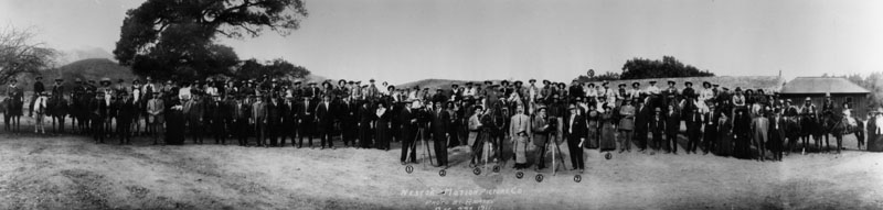 Providencia Ranch - Three cameramen pose in front of a group of men and women, on horses and on foot. The Nestor Film Studio was the first motion picture studio in Hollywood at Sunset Blvd. and Gower St., built by David Horseley for Christie Film Co. Those numbered in the photographed are identified as the following: 1-Bill Piltz, cameraman ( $35/wk) ; 2-Al Christie, Manager and Director of the Mutt & Jeff Comedy Co., ($50/wk) ; 3-Walter Pritchard, cameraman ($35/wk) ; 4-Milton Fahrney, Director of Westerns, ($50/wk) ; 5-Dave Horsley & Son ; 6-Tom Harding, cameraman ($35/wk) ; 7-Thomas Ricketts, dramatic director ; 8-Dorothy Davenport ; 9-Victoria Forde.